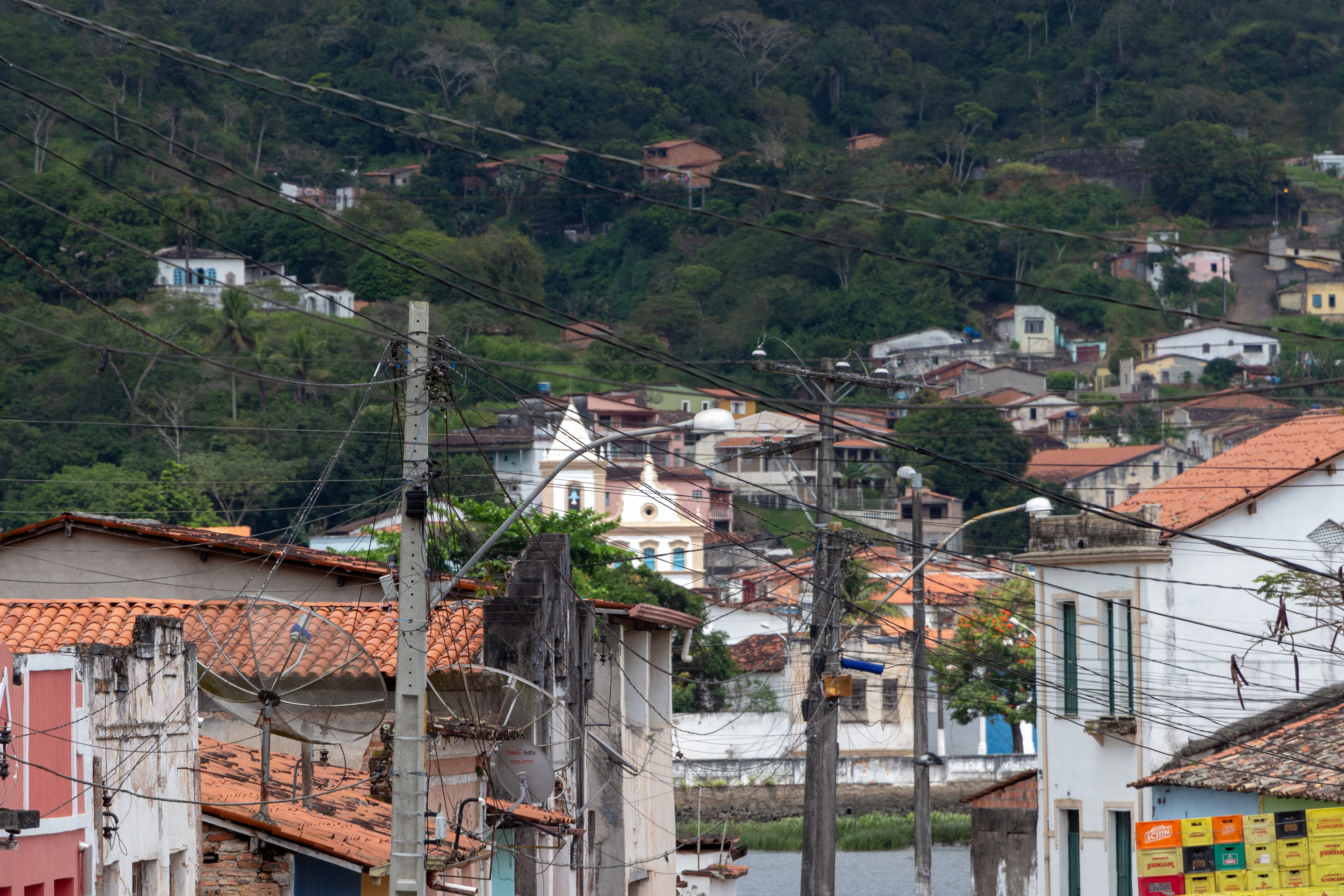 Cachoeira, Bahia.